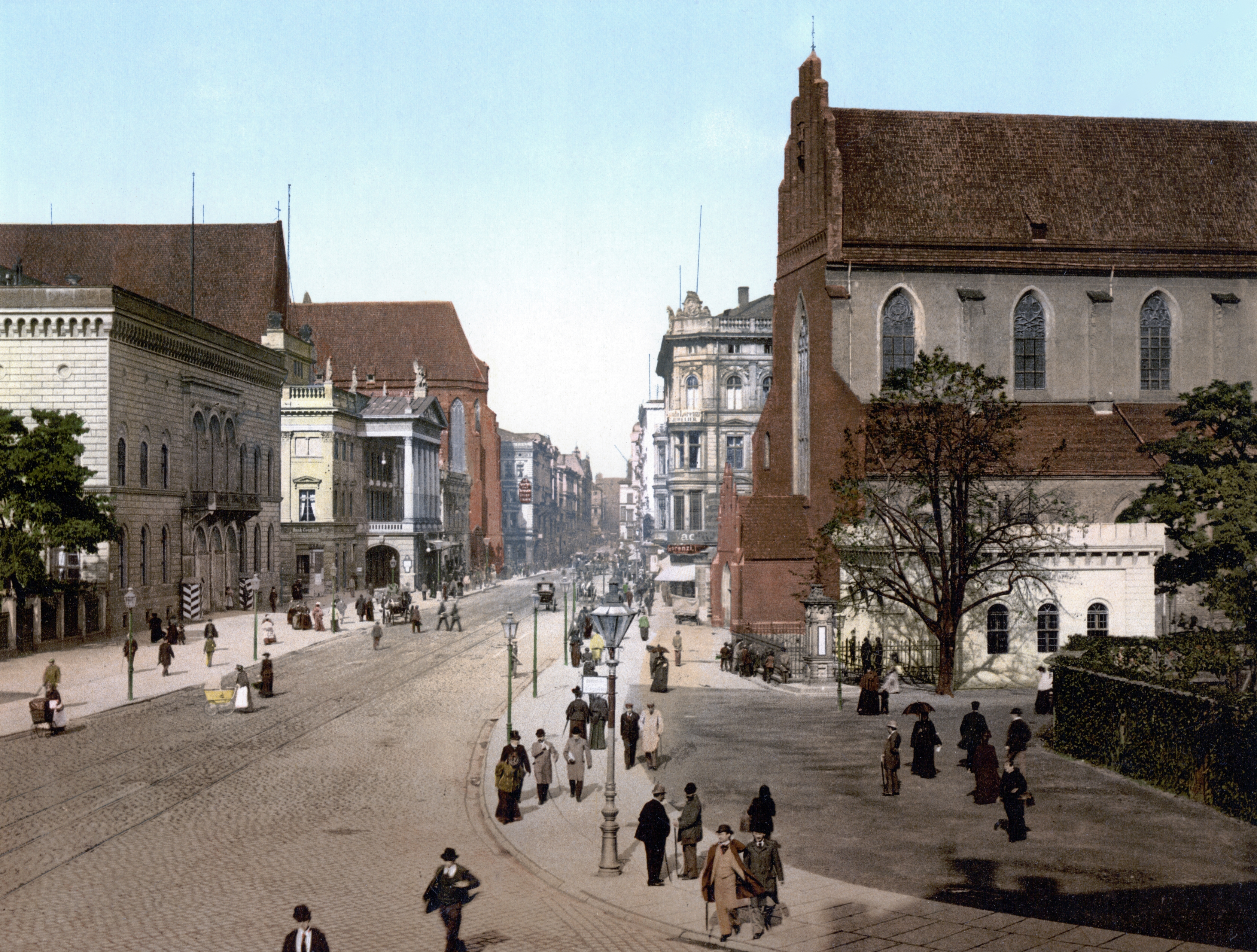 Schweidnitzer Straße (Świdnicka Street) ca. 1890-1900, Breslau, Germany (now Wrocław, Poland)